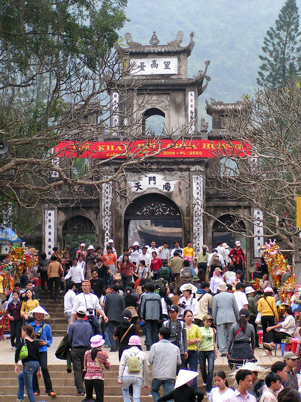 Perfume Pagoda, Hanoi, Vietnam. At the gate of Thien Tru Pagoda.